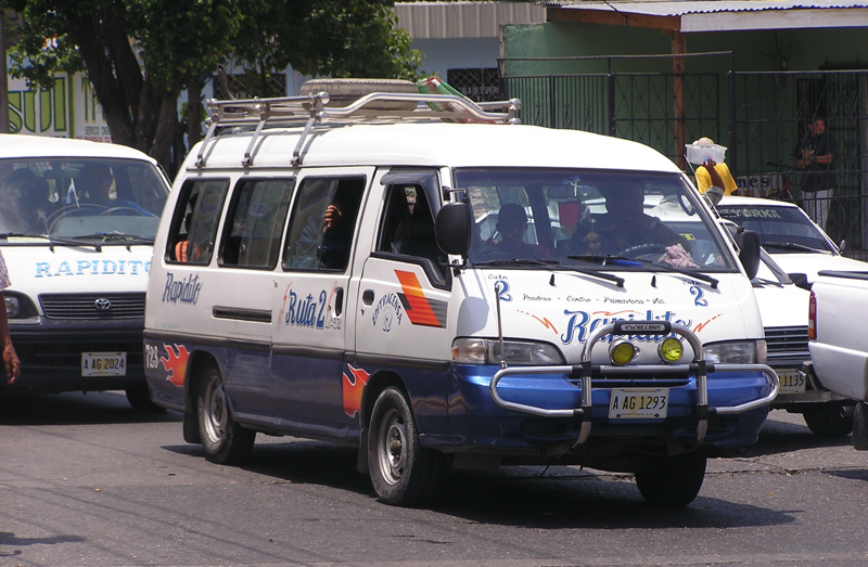 Rapidito minibus in San Pedro Sula, Honduras, July 2004.